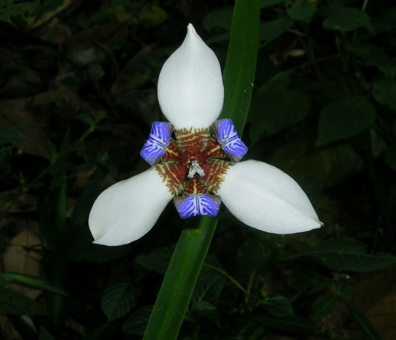 Neomarica northiana